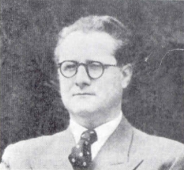 Croatian politician Edo Bulat